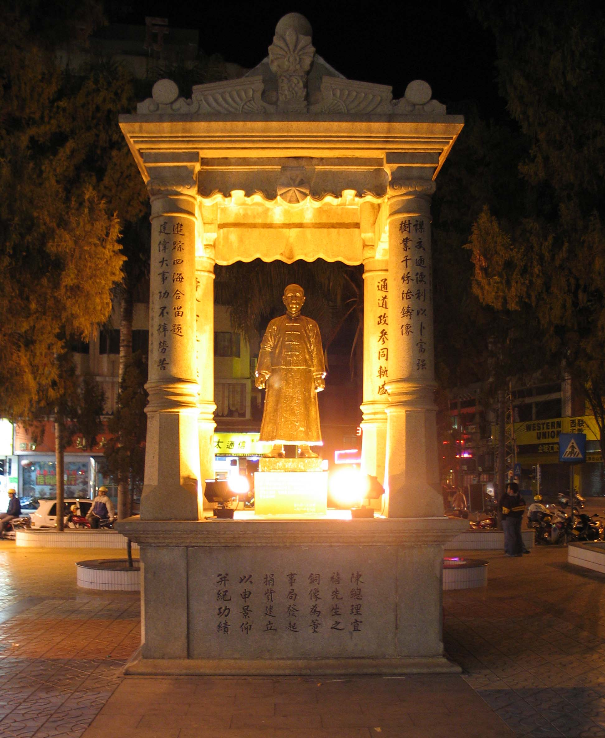 陈宜禧铜像